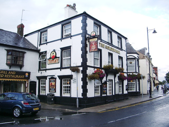 The Golden Ball, Poulton-Le-Fylde, near to Poulton-le-Fylde, Lancashire, Great Britain.